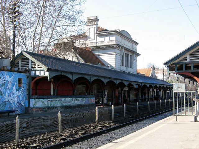 Quilmes Train Station